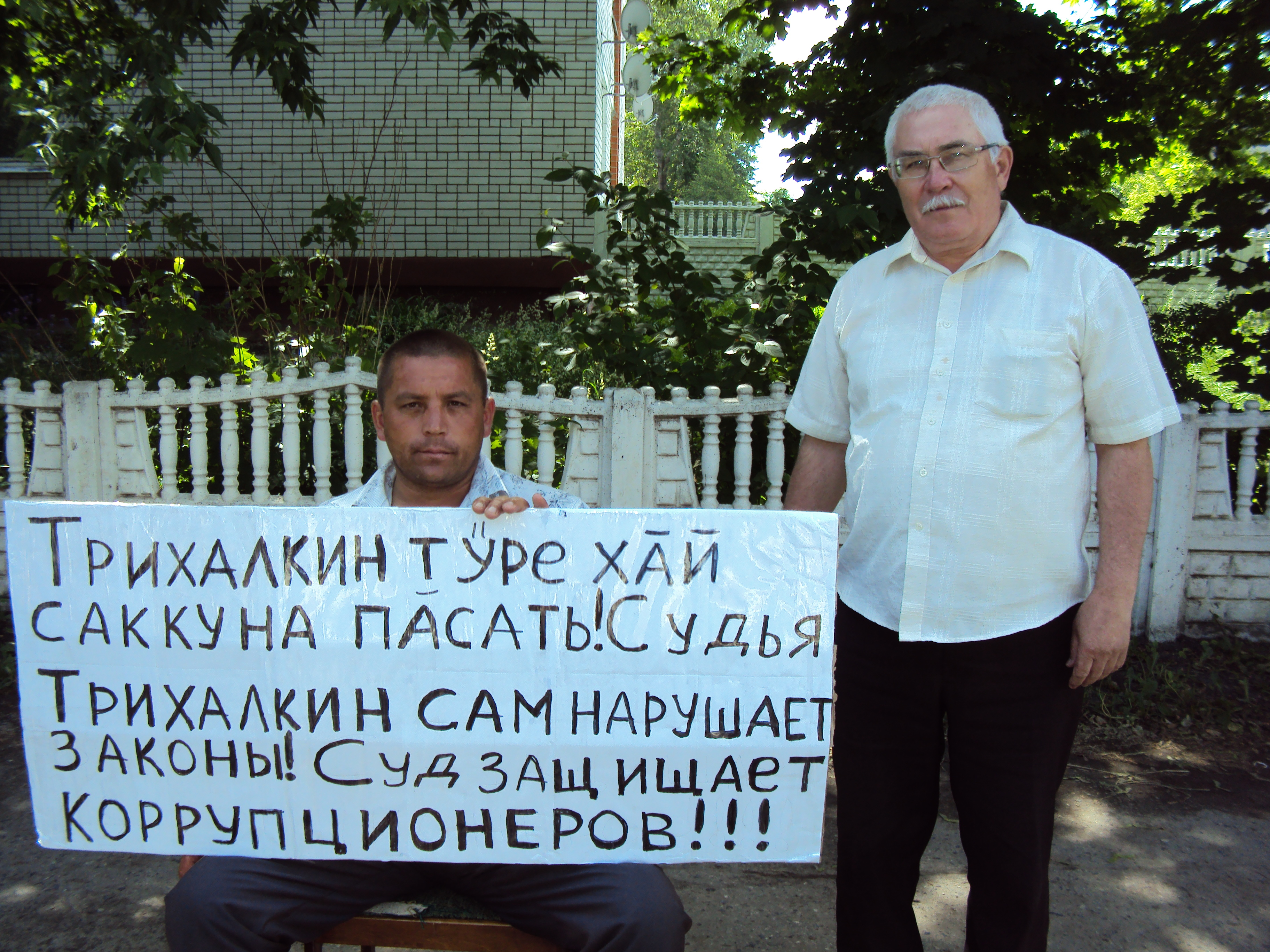 Journalists Eduard Mochalov and Ille Ivanov before court session